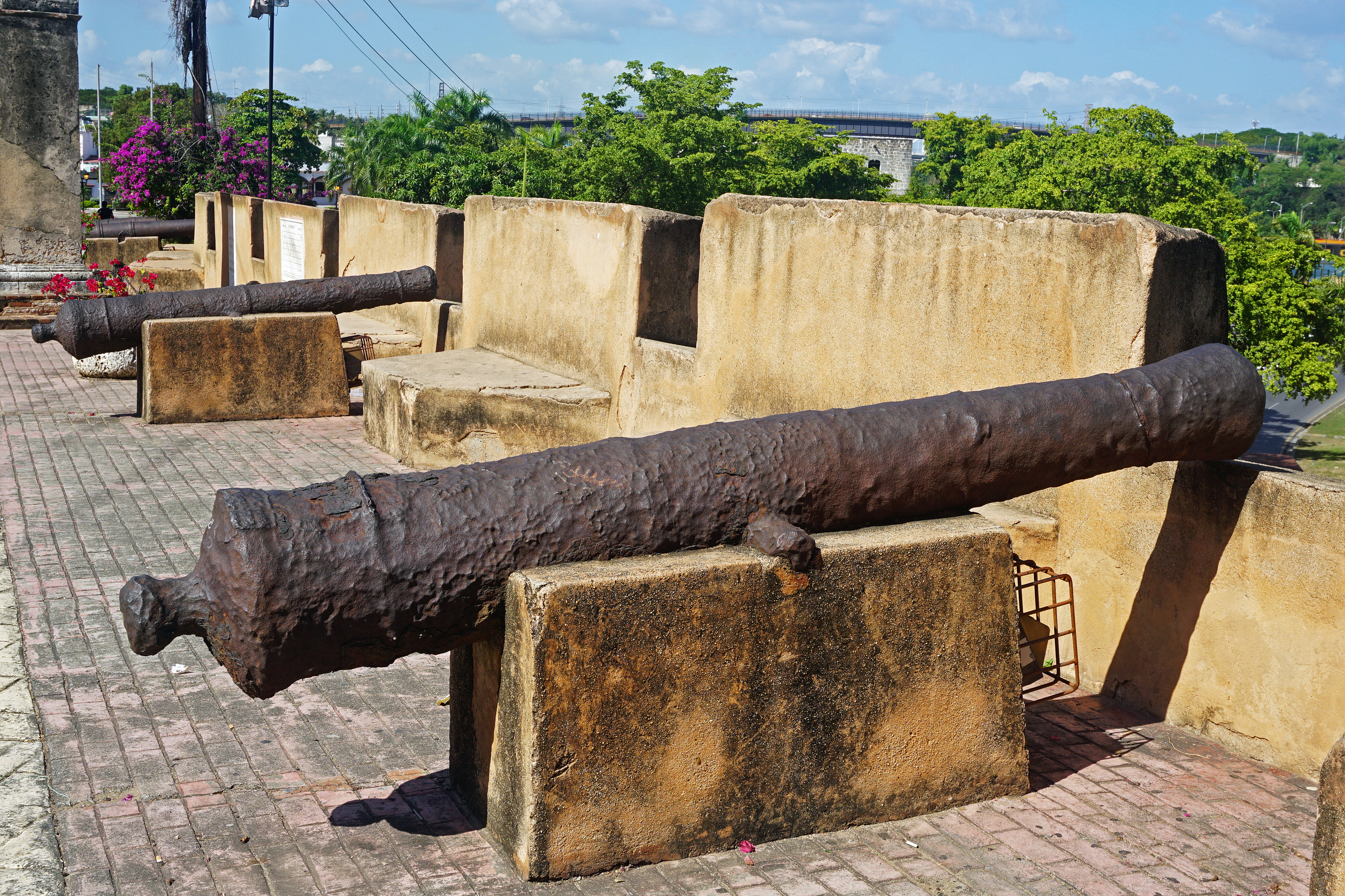 Old colonial cannons displayed in fron ot Museo de las Casas Reales, Ciudad Colonial Santo Domingo, Dominican Republic.